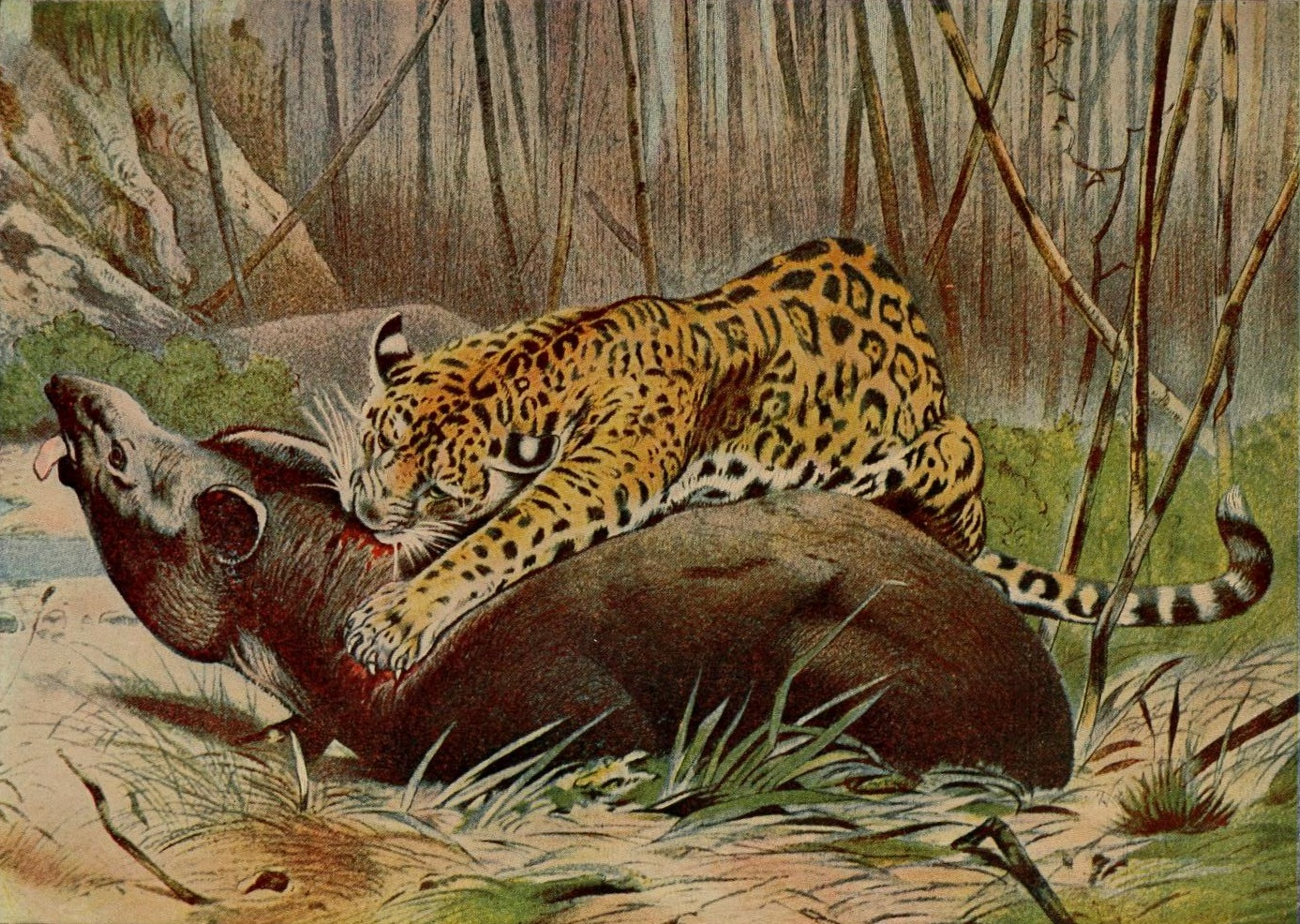 Image from Roosevelt in Africa. Containing also a Complete History and Study of Wild Animals of the World, with Thrilling and Exciting Experiences of Hunters of Big Game (1909)